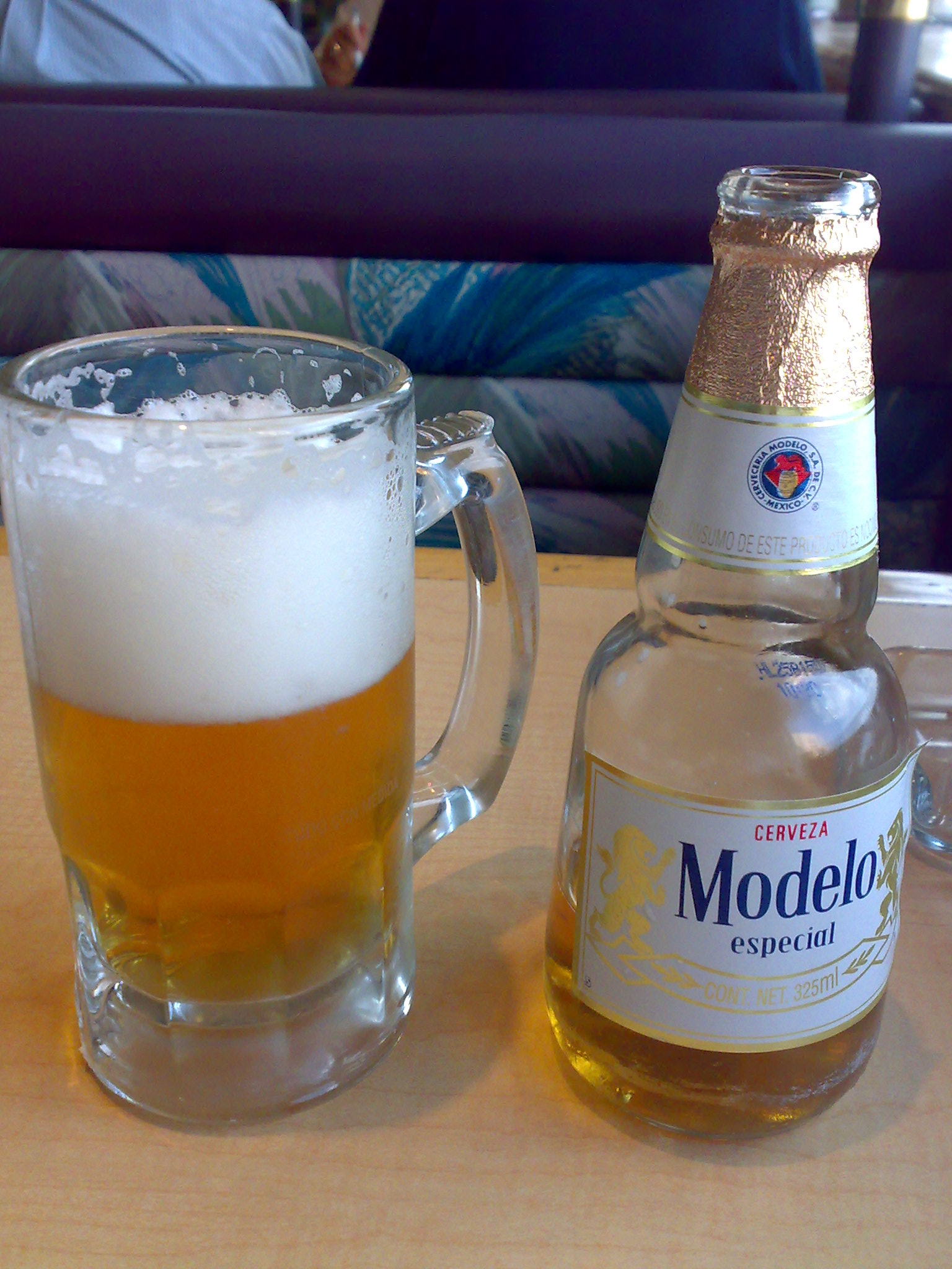 The beer Modelo Especial. Photo taken by me.